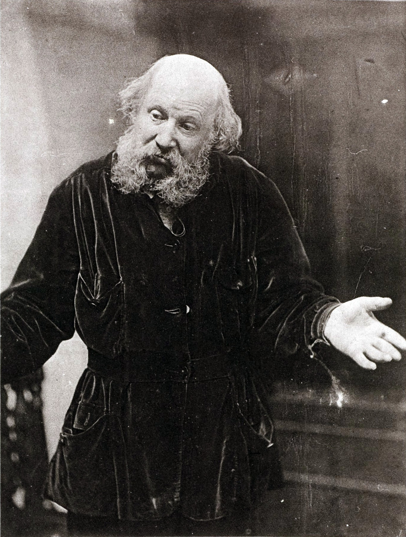 Picture of plate VI from Charles Darwin's The Expression of the Emotions in Man and Animals. From Chapter XI: Disdain—Contempt—Disgust—Guilt—Pride, etc.—Helplessness—Patience—Affirmation and negation. Self-portrait by O. G. Rejlander